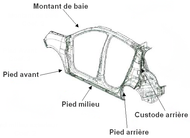 Automobile parts.